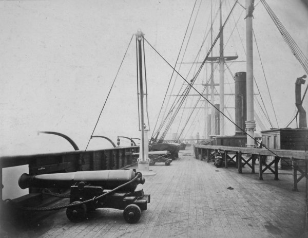 Deck of the „Great Eastern“ Reproduction ID: H2415 National Maritime Museum Native nameNational Maritime MuseumLocationGreenwich, London, EnglandCoordinates51° 28′ 51.96″ N, 0° 00′ 20″ W Established1937Web pageRoyal Museums GreenwichAuthority control : Q1199924 VIAF: 153531318 ISNI: 0000 0004 0426 429X LCCN: n80126325 Historic England: 1211481 GND: 1049610-5 WorldCat institution QS:P195,Q1199924